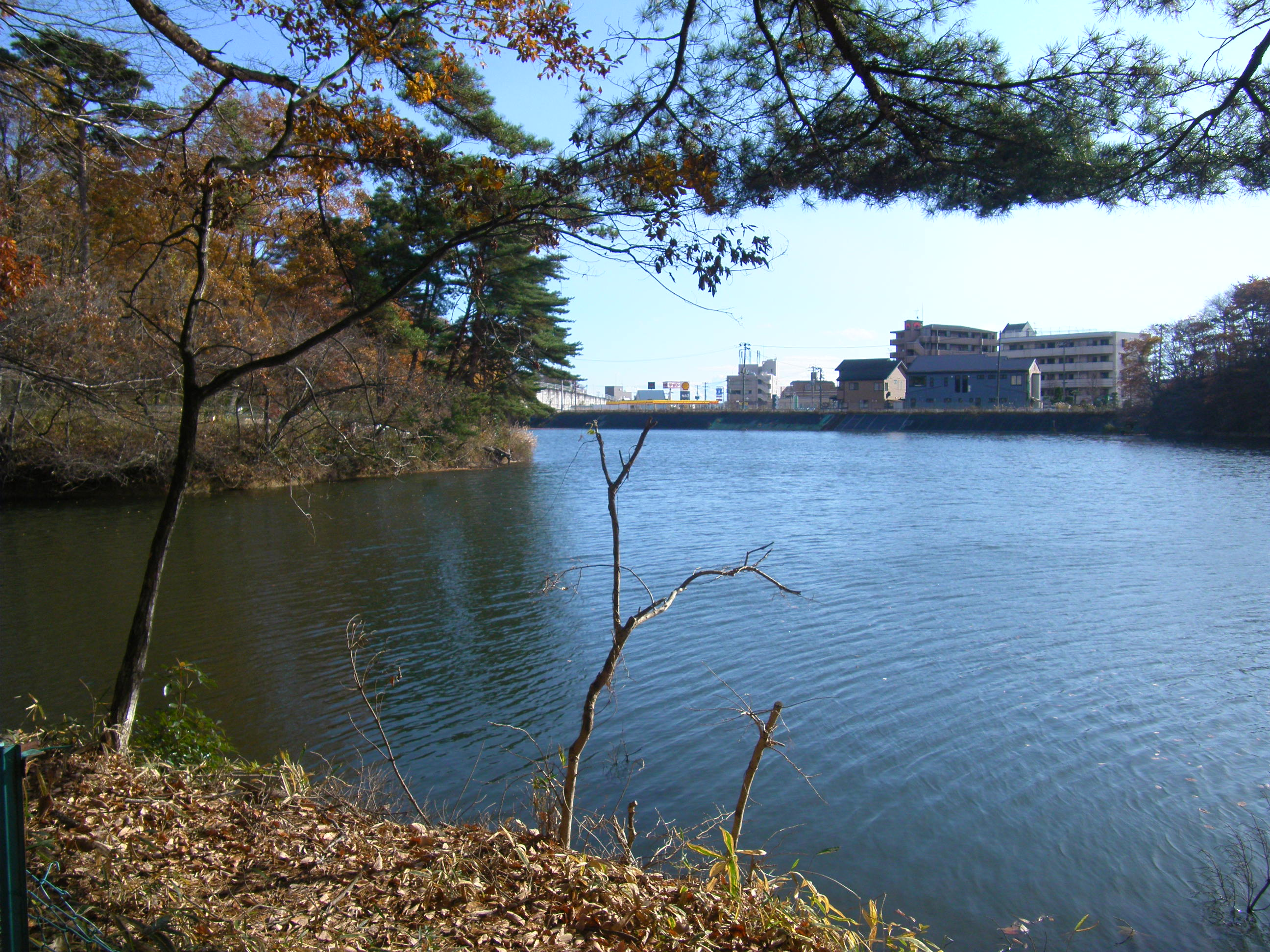 Shogen Pond. Izumi ward, Sendai, Miyagi prefecture, Japan.